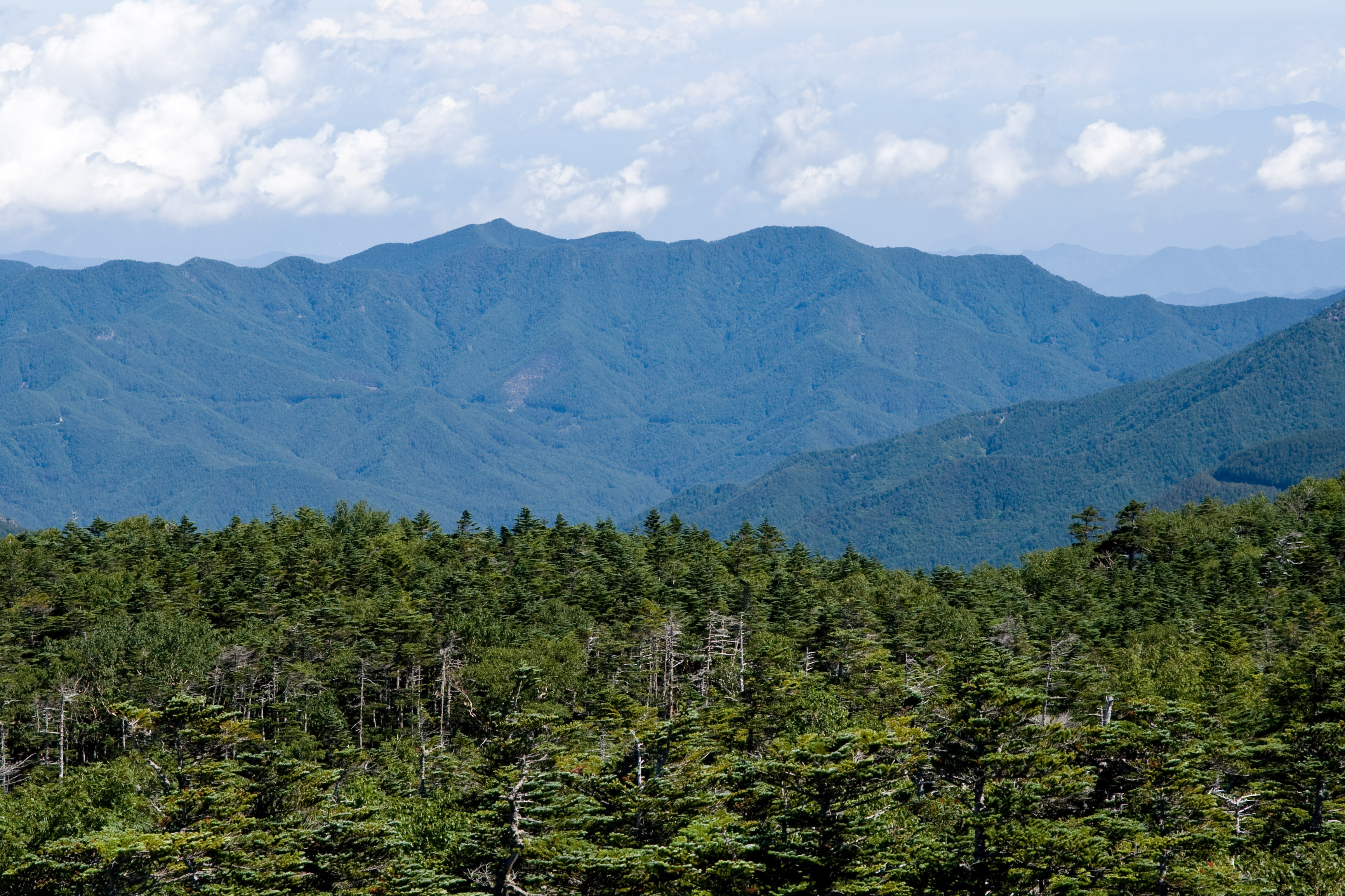 Mount Takamagahara, Nagano and Gumma Prefectures, Japan.